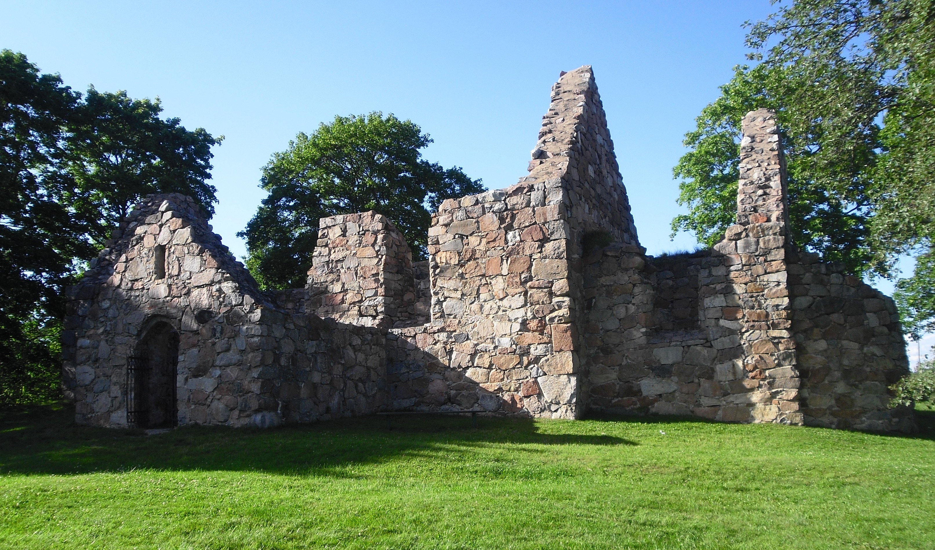 Kärnbo kyrkoruin, the former church in Kärnbo near Mariefred in sweden